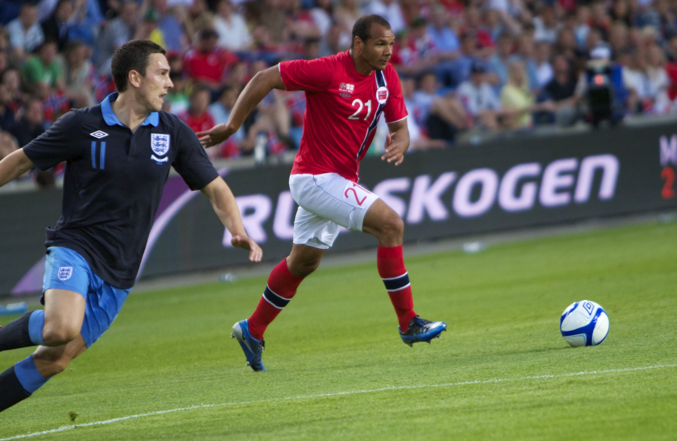 Daniel Braaten of Norway in May 2012 friendly against England in Oslo.